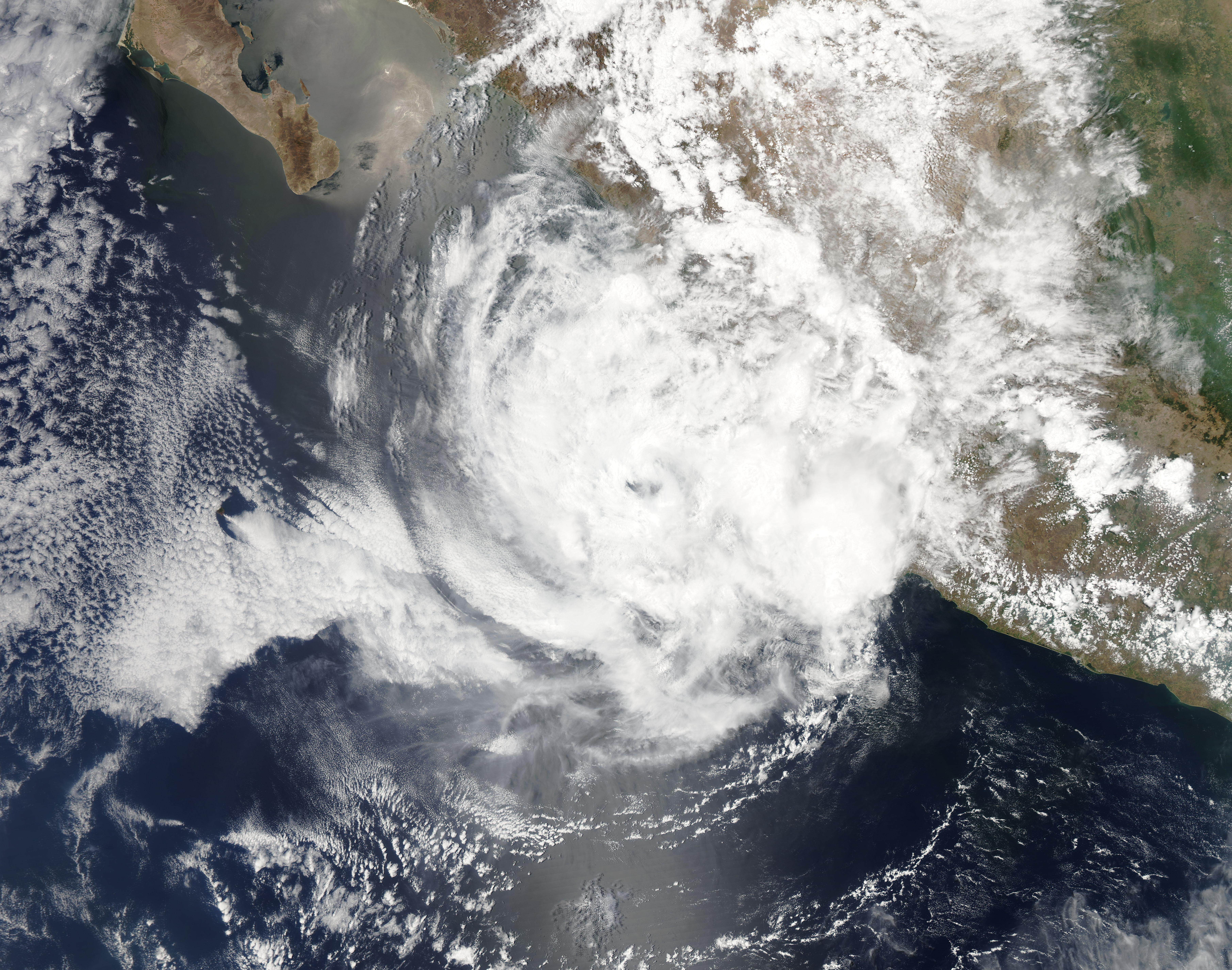 Hurricane Bud as a category 1 hurricane nearing landfall on May 25, 2012